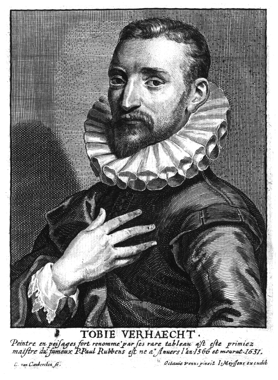 Tobias Verhaecht in Cornelis de Bie's Gulden Cabinet.